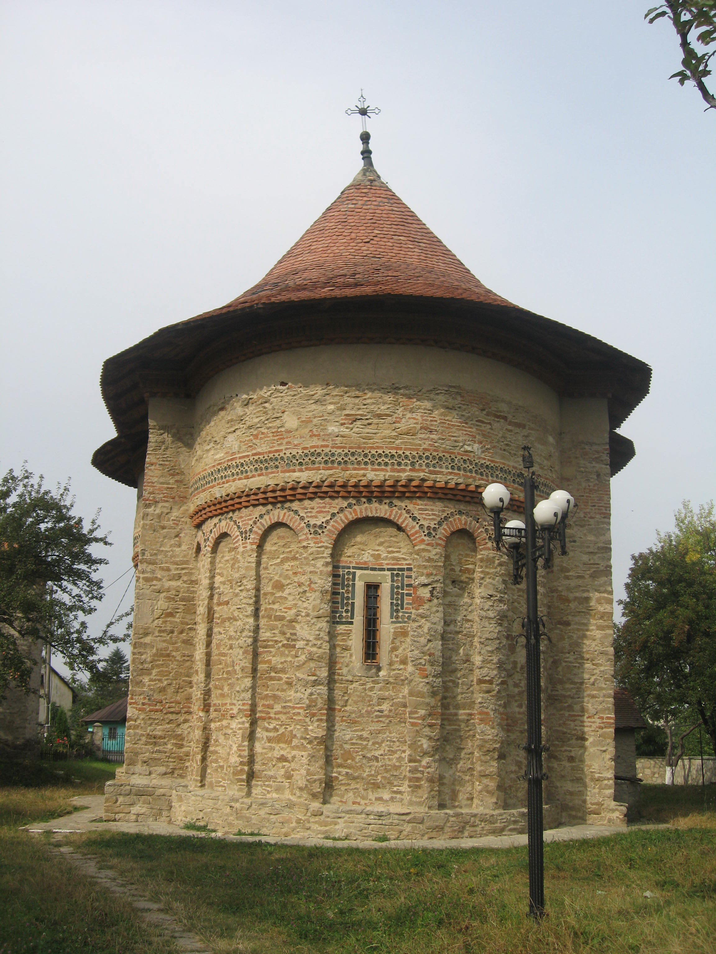 Biserica Sfânta Treime din Siret